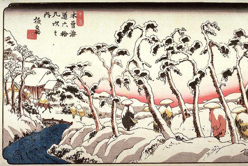 Itahana on the Kisokaido, ukiyo-e prints by Keisai Eisen